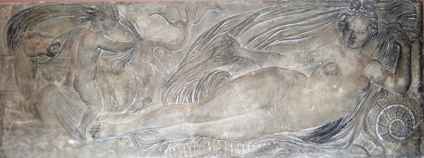 Goujon - Nymphe et un petit génie sur un cheval marin - Louvre